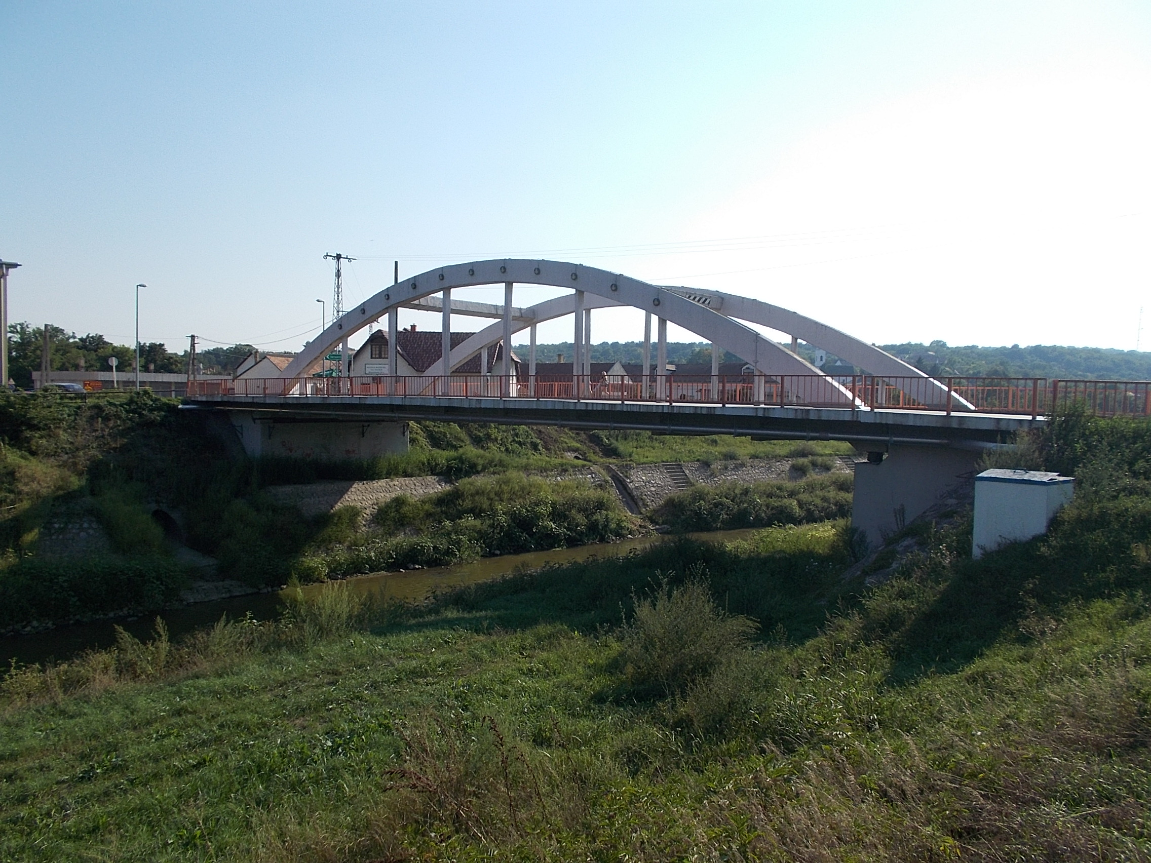 Simontornya road bridge over Sió. From Siópart street (From NE). - Simontornya, Tolna County, Hungary